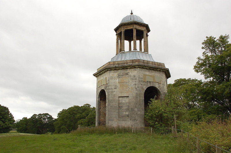 The Temple, Preston Hall